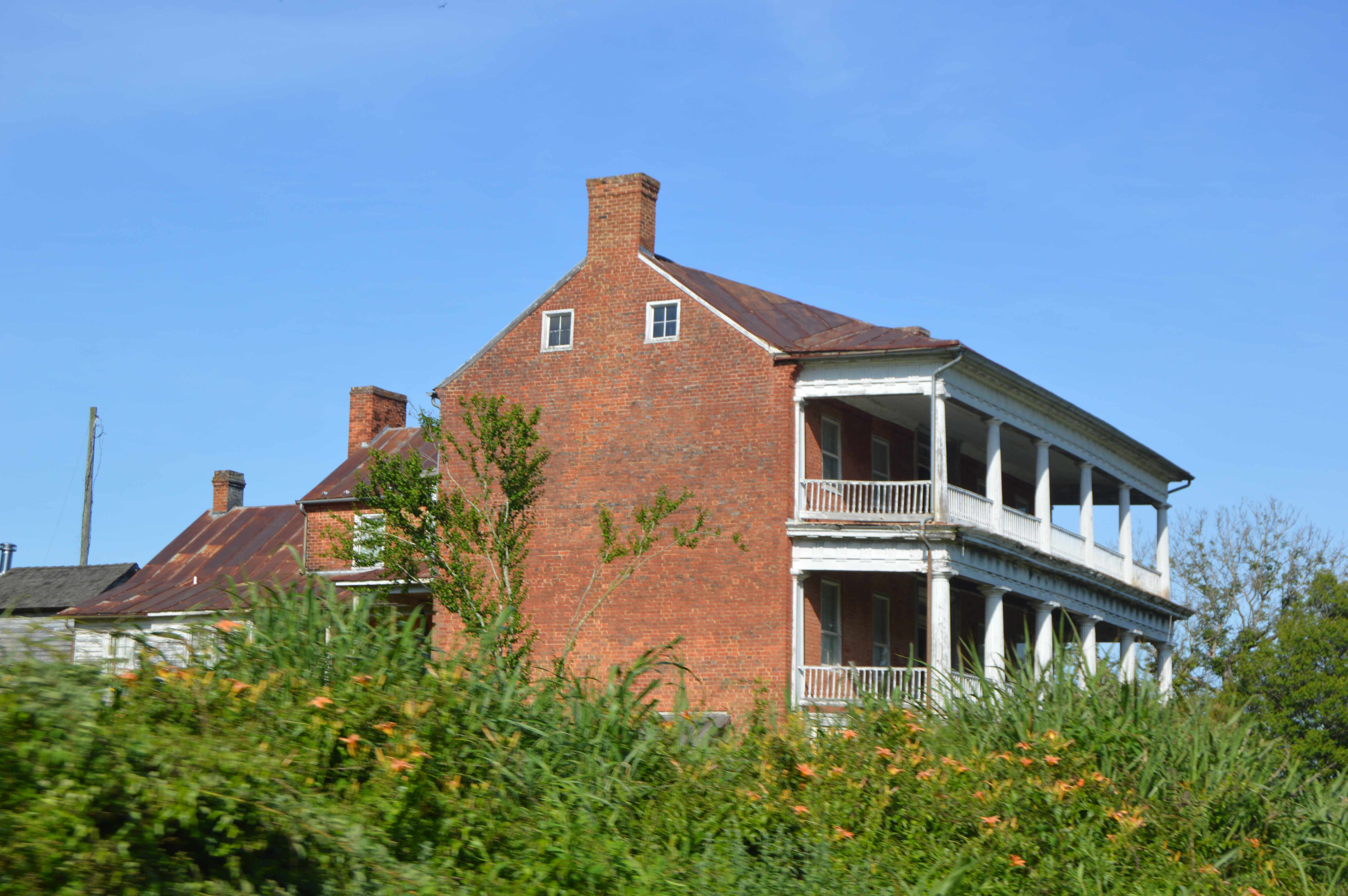 Western side and front of Wheatland Manor, located on Wheatland Road east of Fincastle in Botetourt County, Virginia, United States. Built in 1820, it is listed on the National Register of Historic Places.